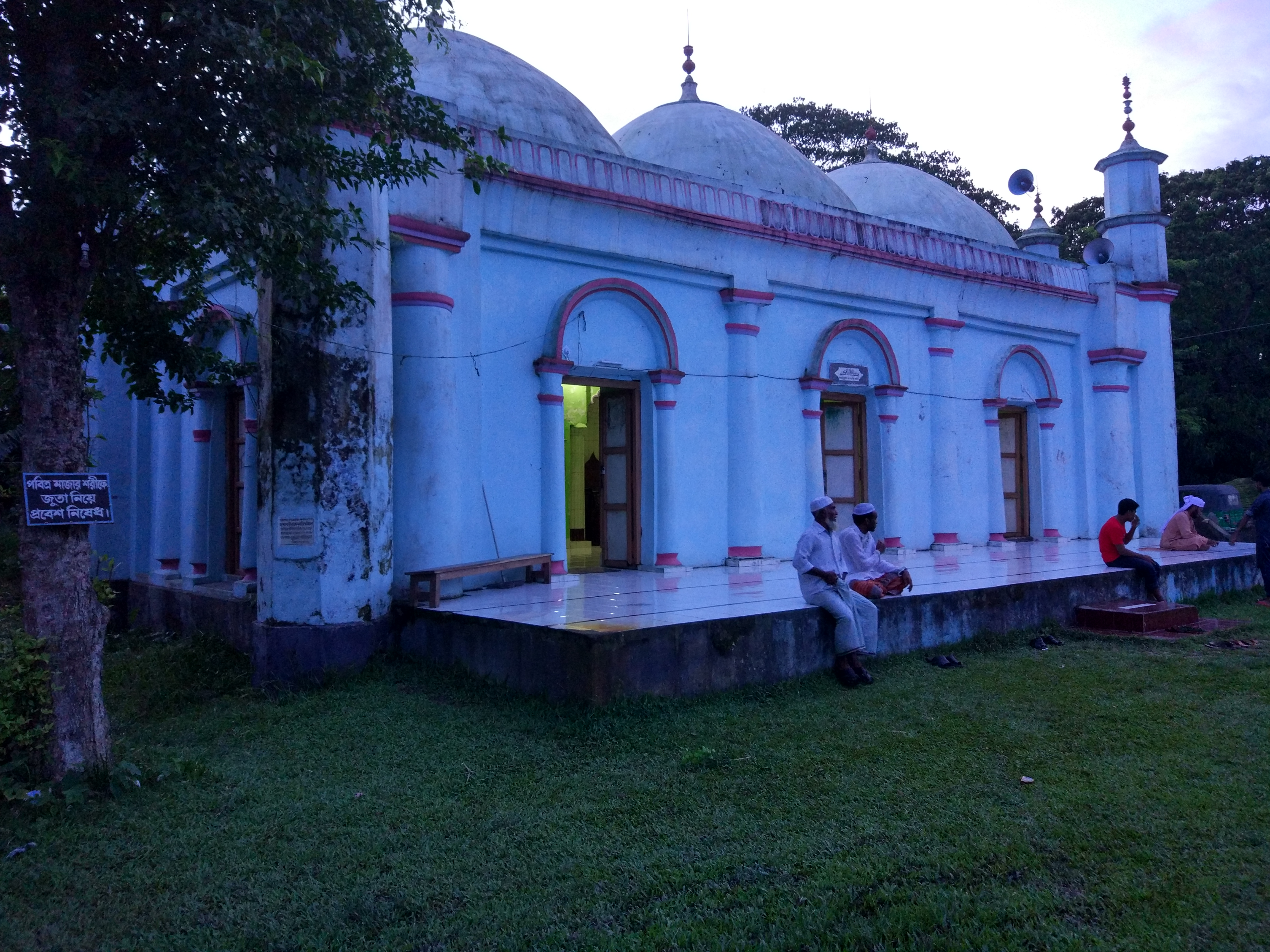 The Isa Khan Mosque in Jangalbari Fort. Jangalbari was the second capital of Lord Musa/Isa khan.